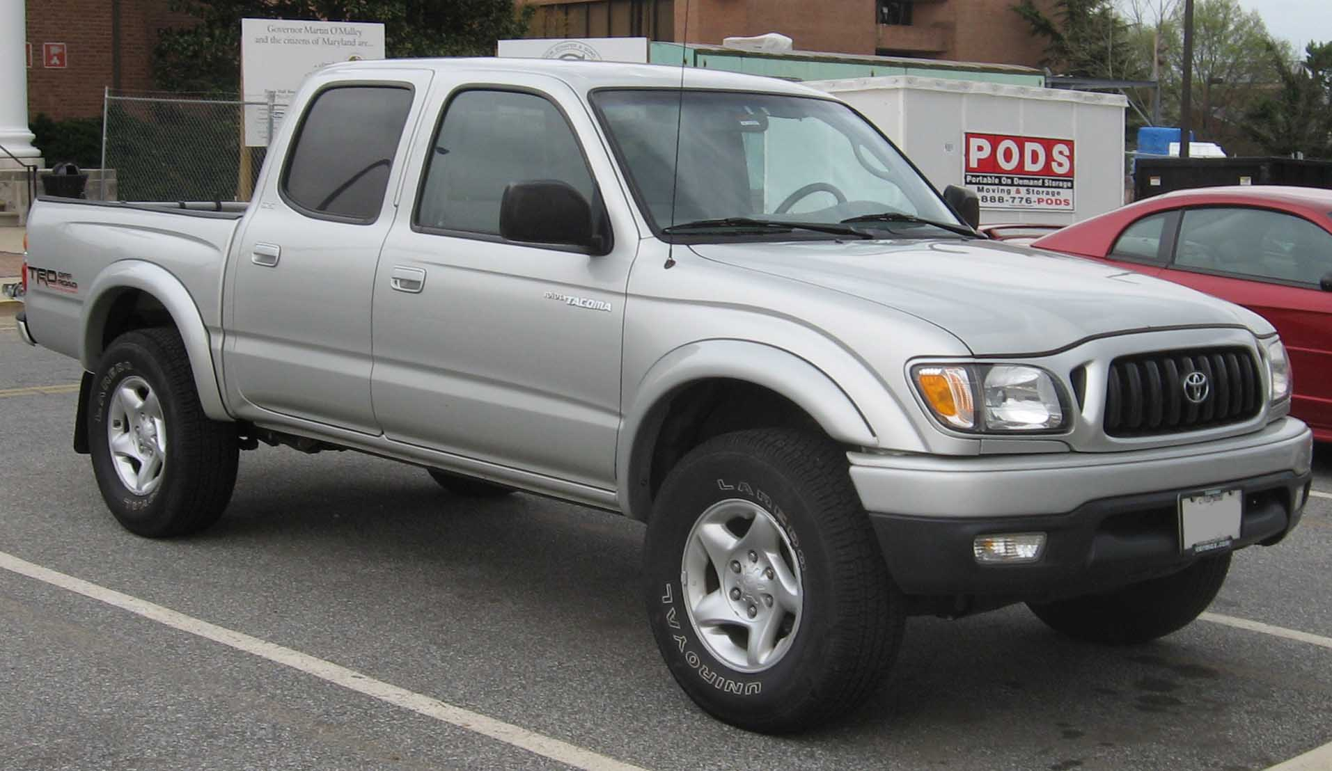 2001-2004 Toyota Tacoma photographed in College Park, Maryland, USA.